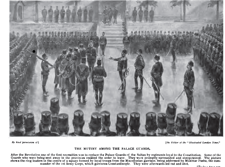 Young Turk Revolution mutiny